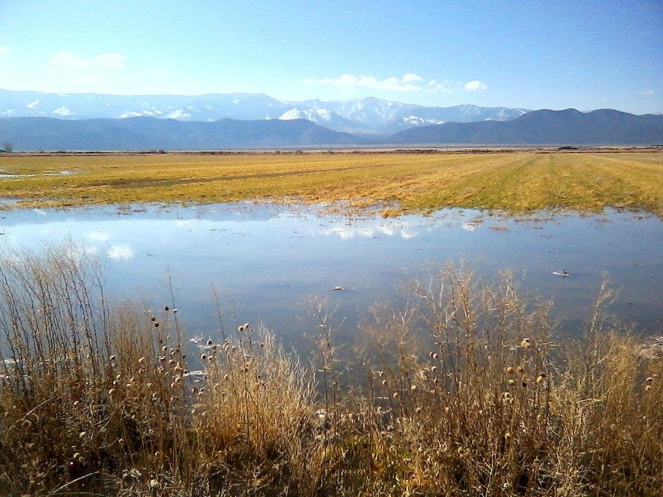 Tall yellow dried grasses sprout up at base of the photo. Just behind the grasses, a pool of water has collected from recent rain storms, reflecting distant mountains and skies. Past the pool of water, yellow, unused farm land seems to stretch out to the distant, snow dusted mountains. A few clouds hover over the mountains, but most of the sky is clear.